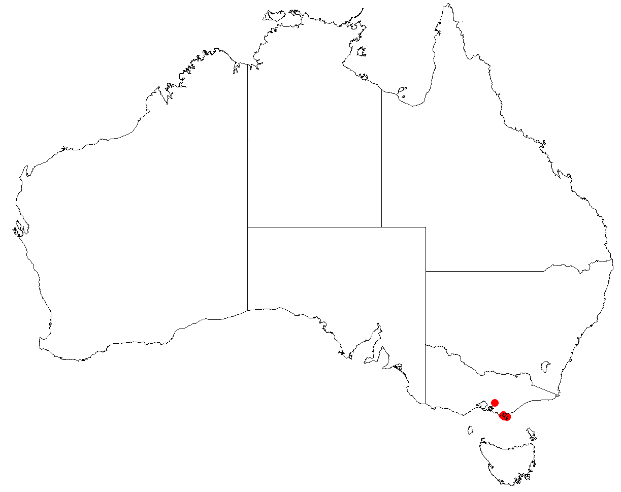 Allocasuarina media Occurrence data downloaded from Australasian Virtual Herbarium on 4 July 2018